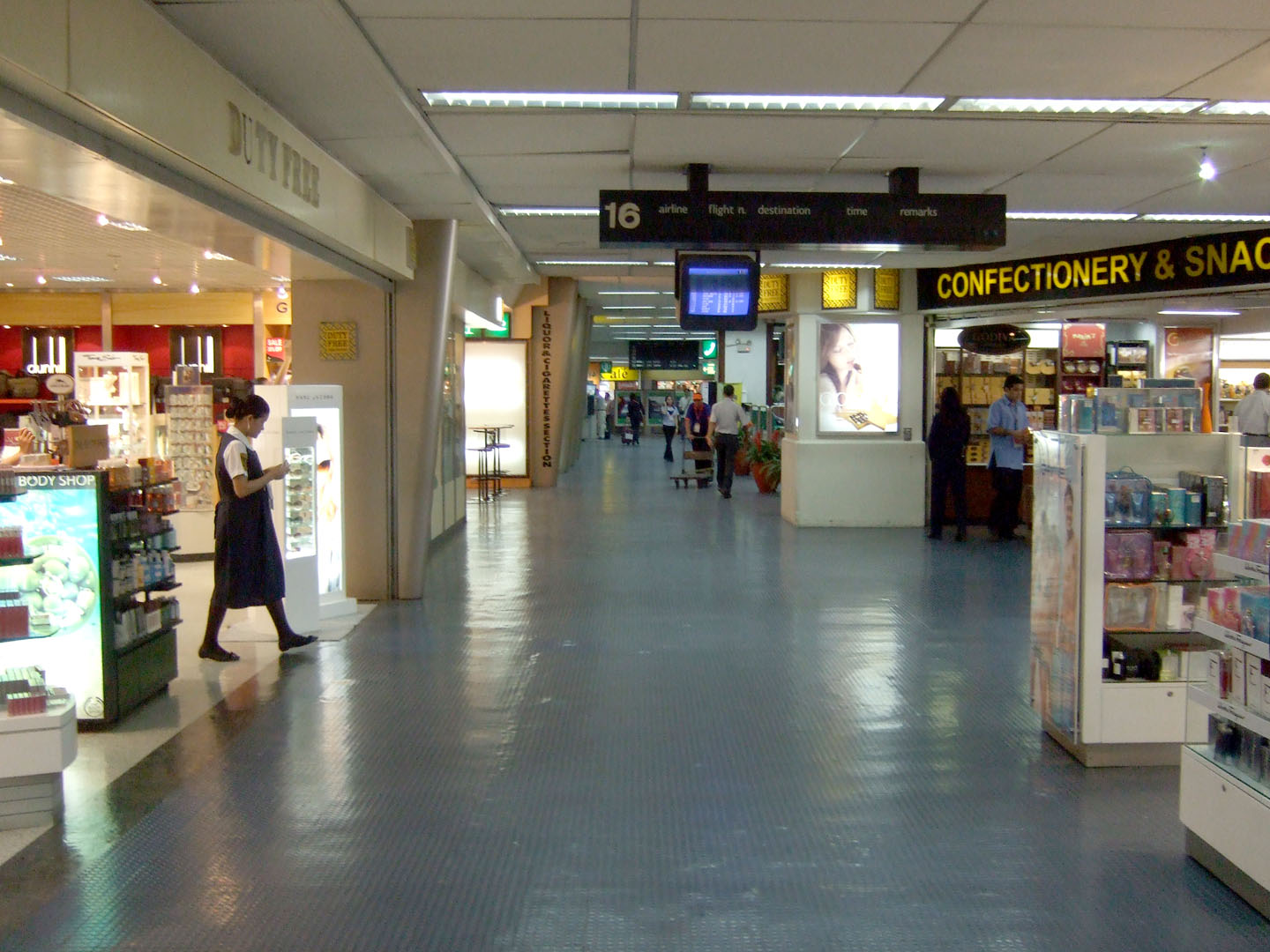 Manila International Airport duty-free shops